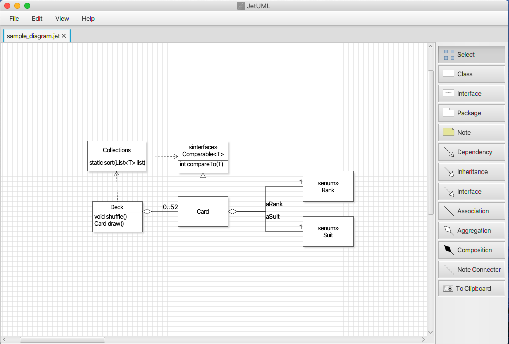 Example of creating a class diagram in JetUML.